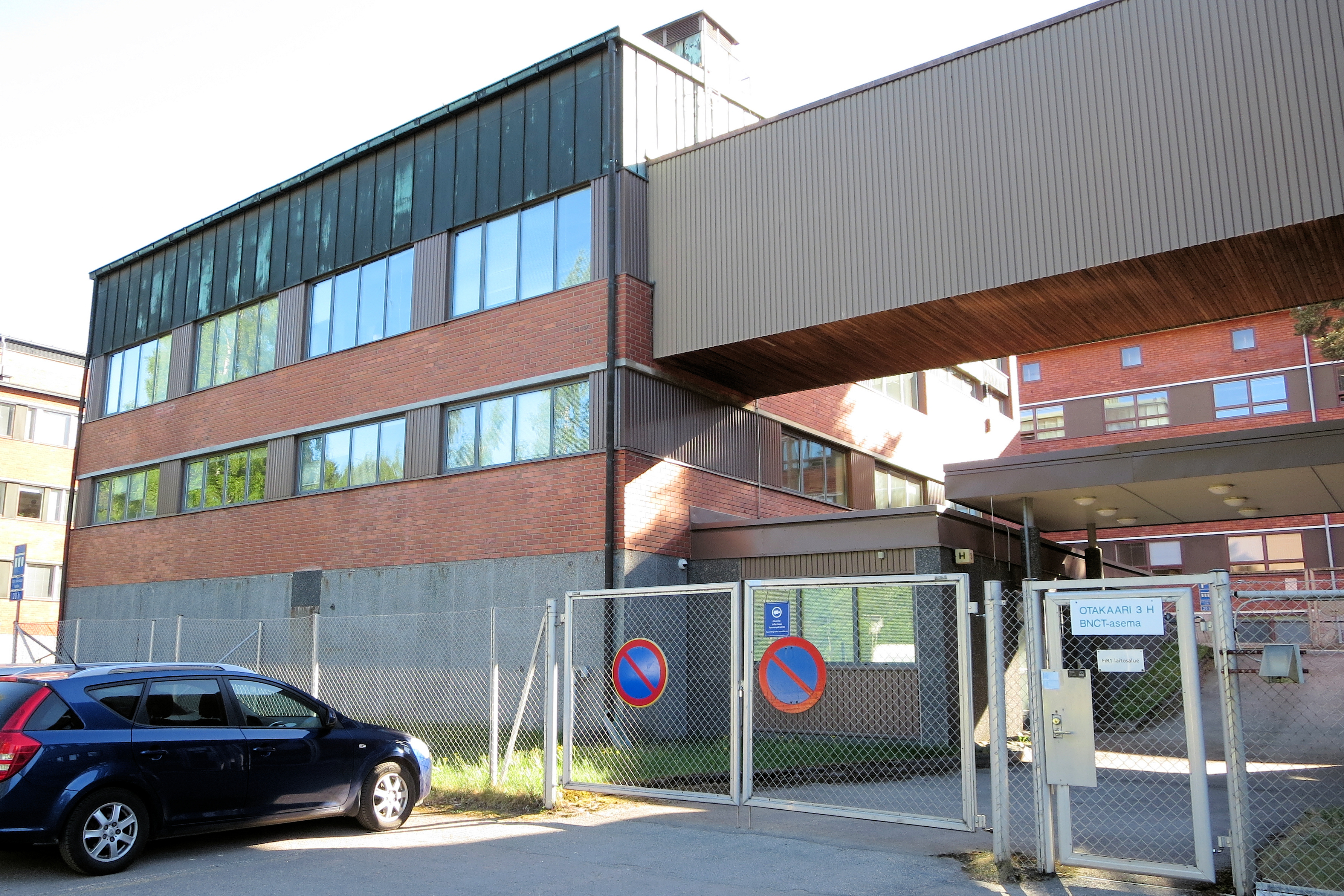 Building of the TRIGA research reactor FiR 1. Otakaari 3, Otaniemi, Espoo, Finland